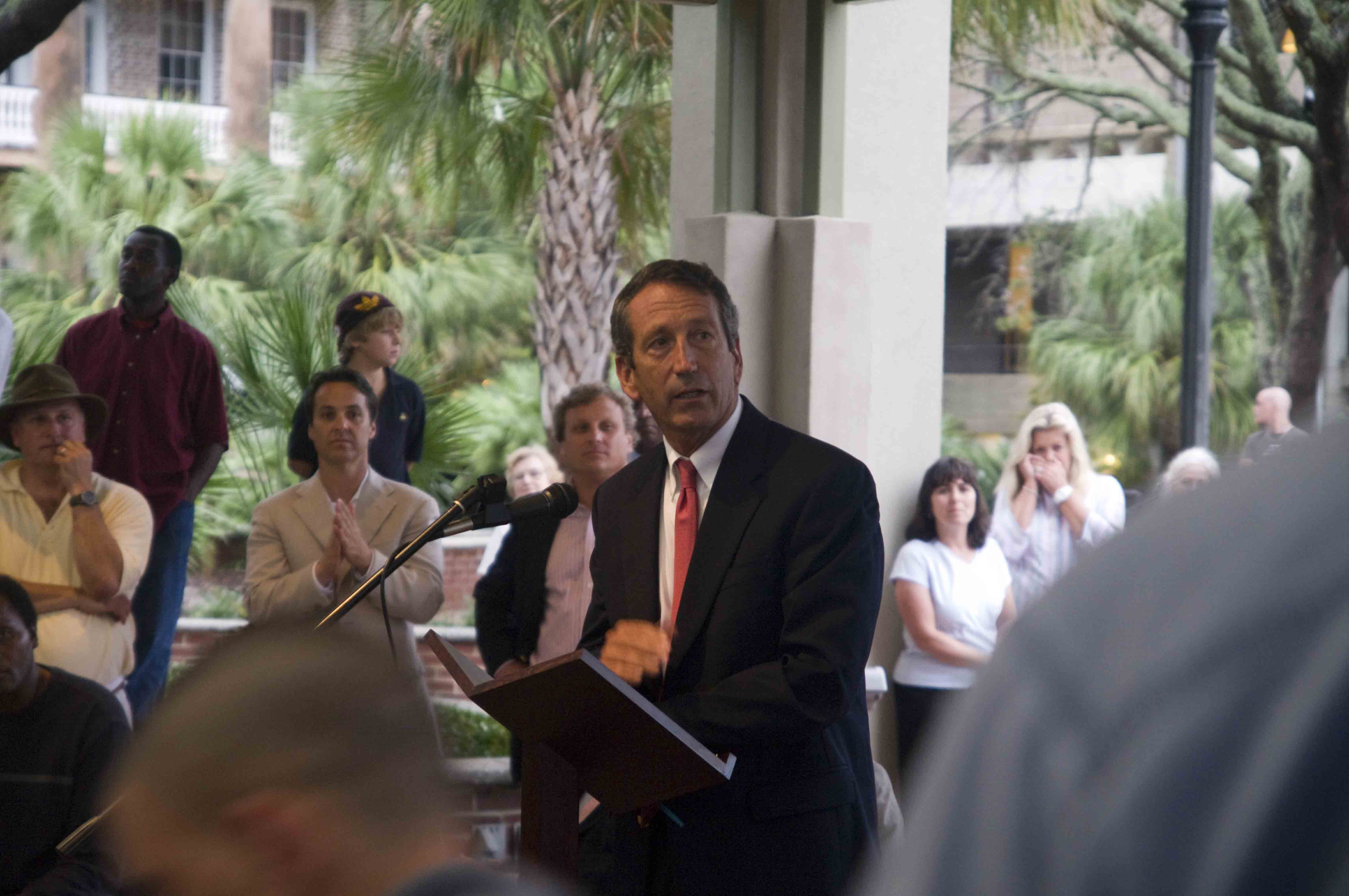 Mark Sanford @ Joe Fraizer award